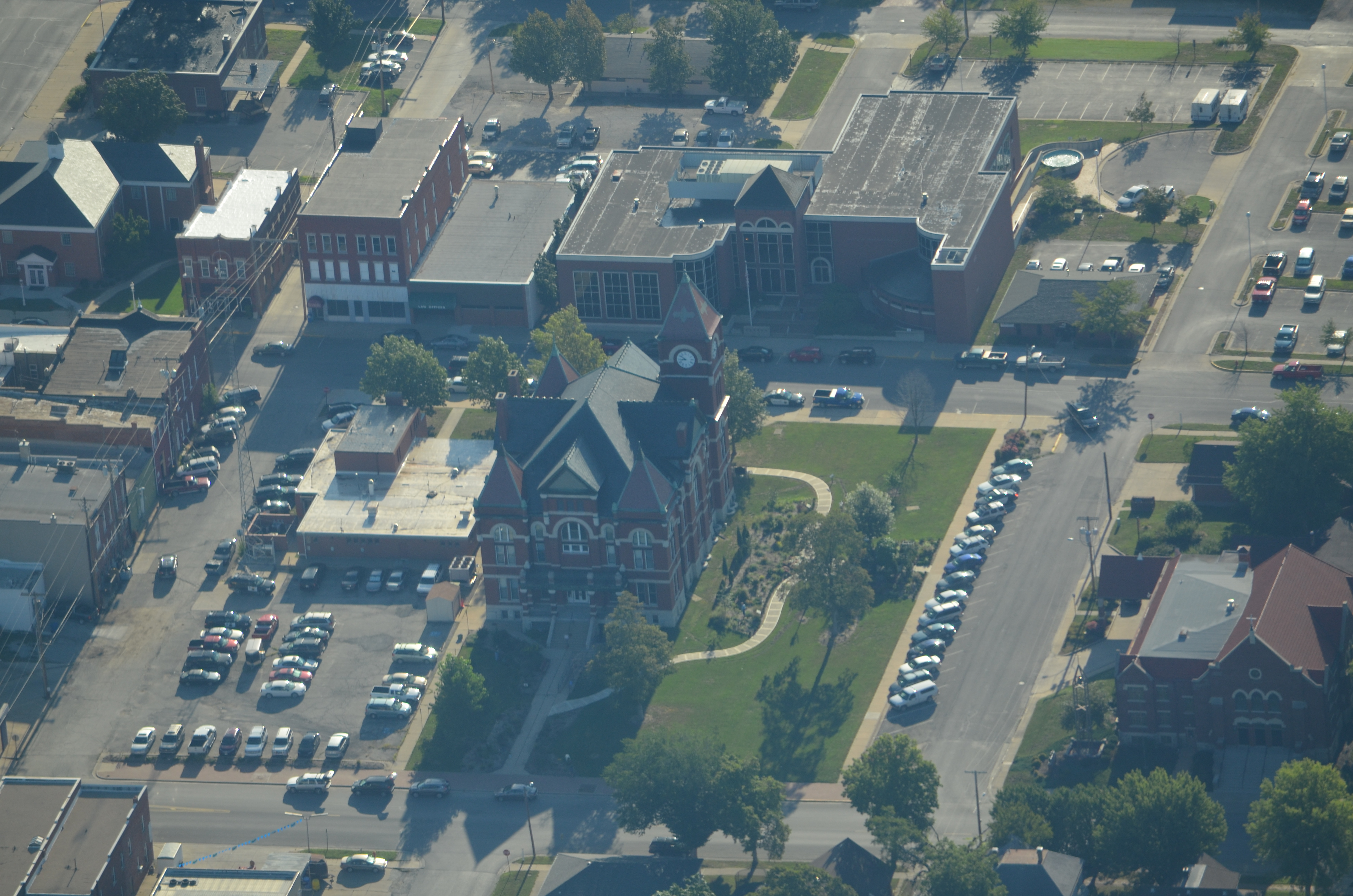 Aerial view of Paola, Kansas